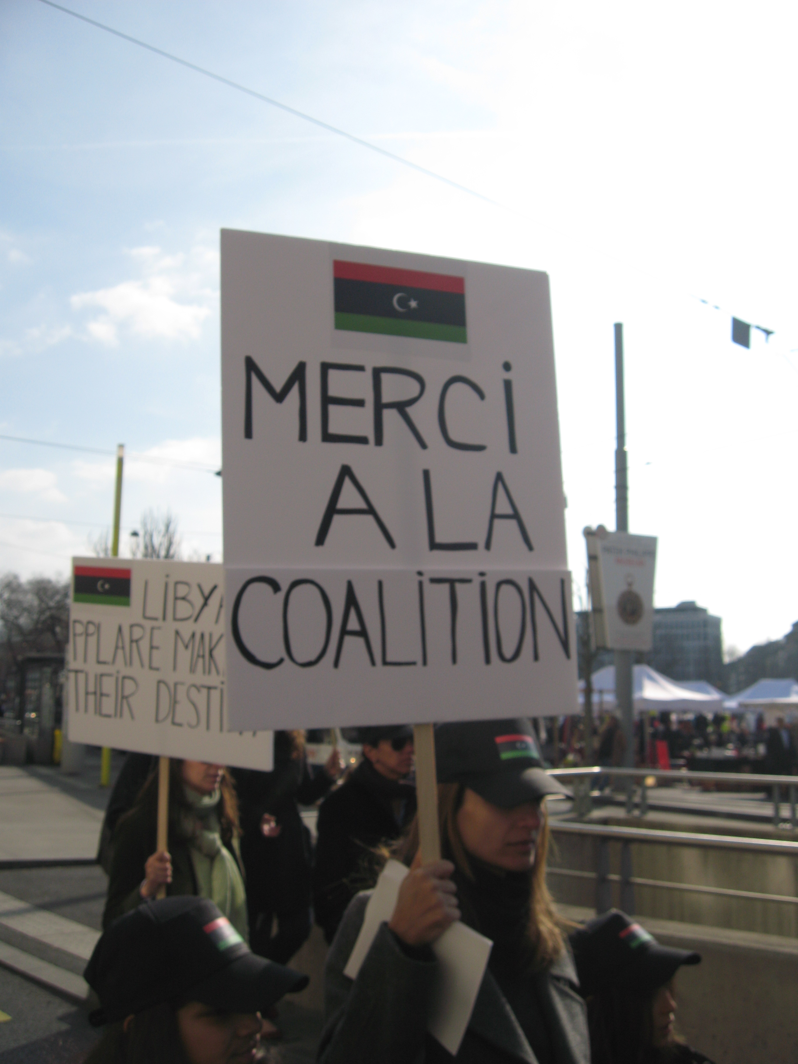 Geneva, CH Sunday, 20 March 2011